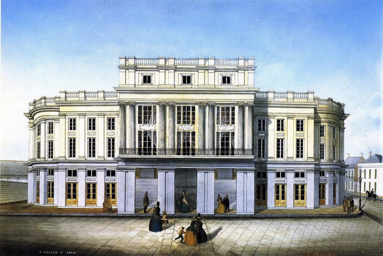 New Orleans: French Opera House. 19th century view by painter Marie Adrien Persac (1823-1873). Height: 40.32 cm (15.88 in.), Width: 59.69 cm (23.5 in.) This is a view of the building's front on Bourbon Street. Due to the restrictions of trying to photograph the building fronting a somewhat narrow street, it is more commonly seen from the side or views from the next corner.